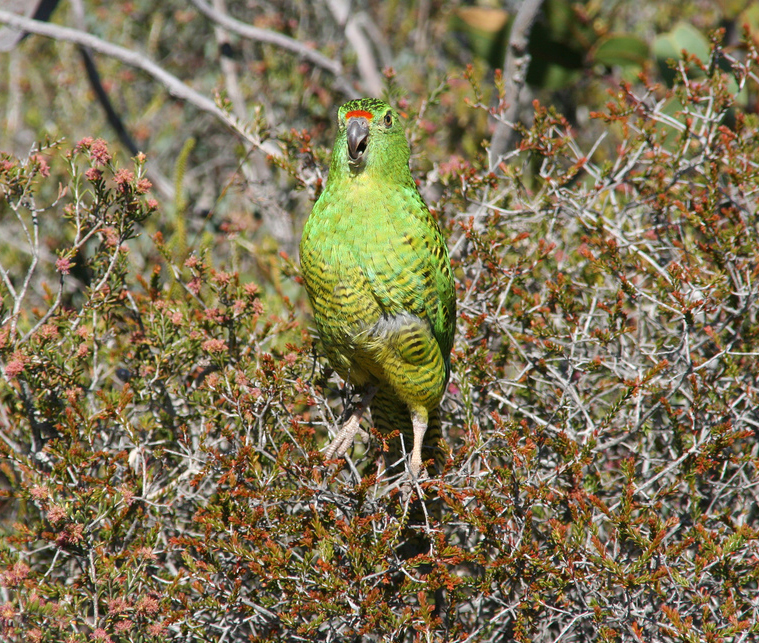 Stand and sing Western Ground Parrot (Pezoporus flaviventris)